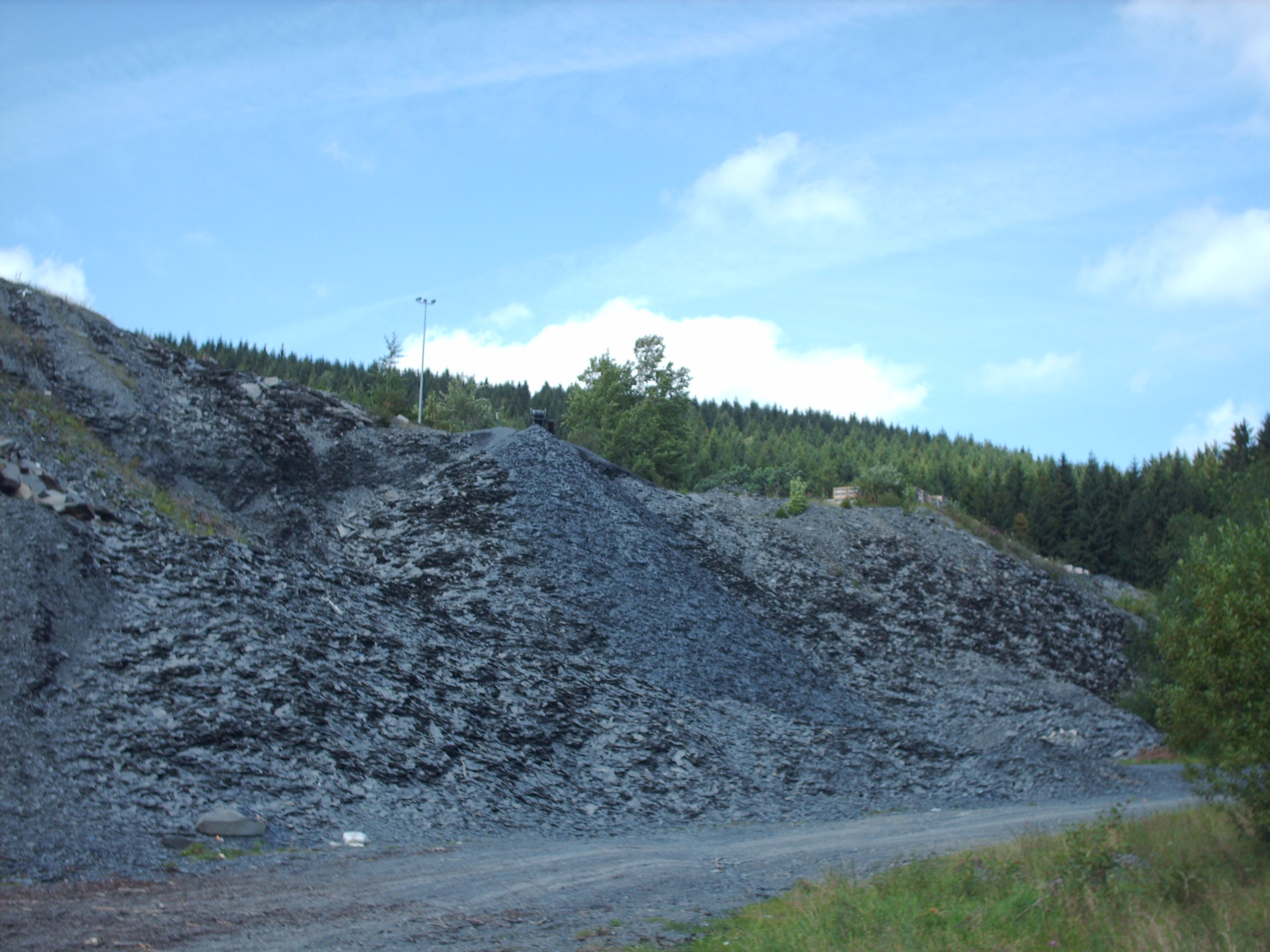 Magog slate stockpile, Schmallenberg, Germany check usage